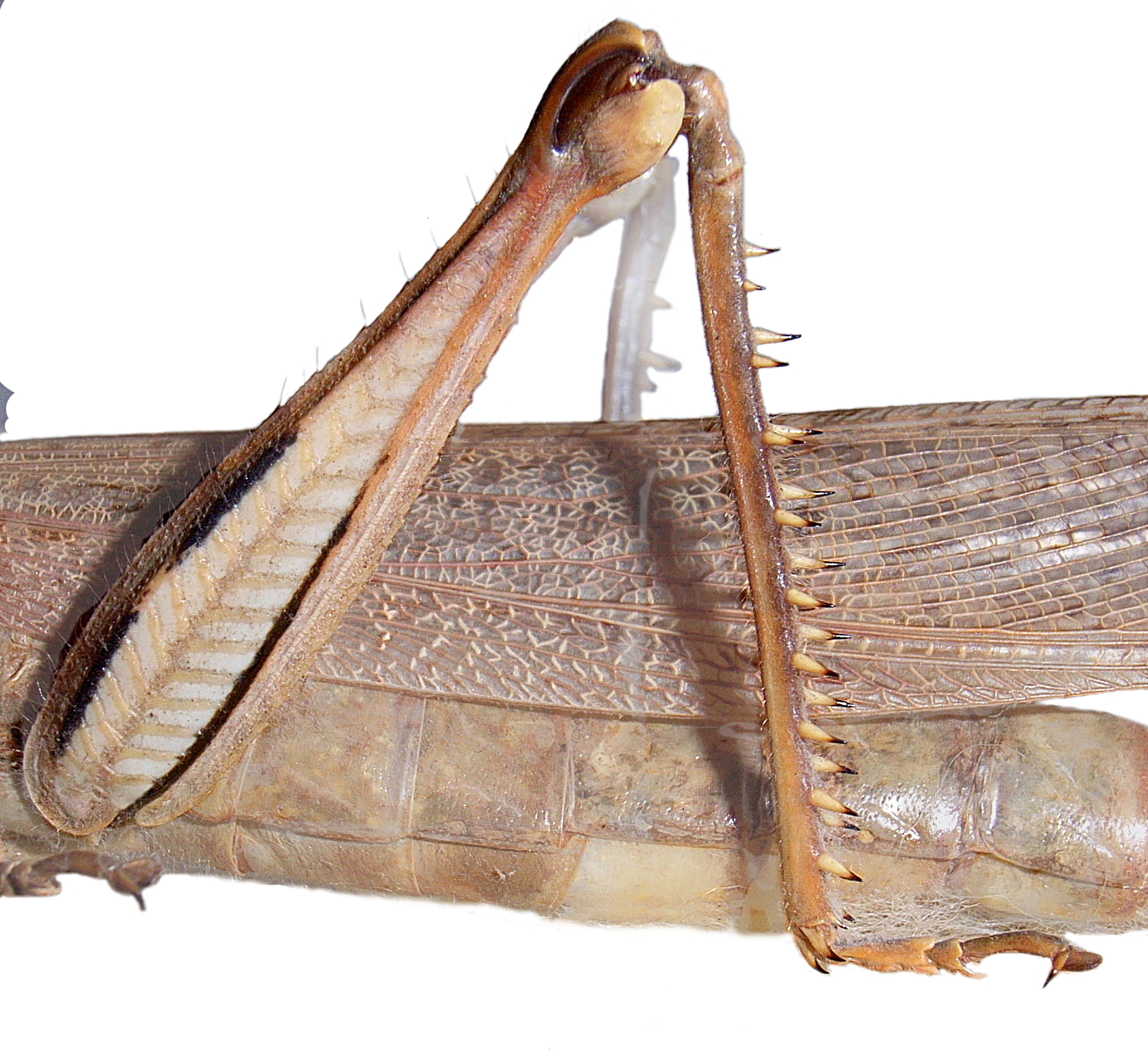 hind leg of Acrididae